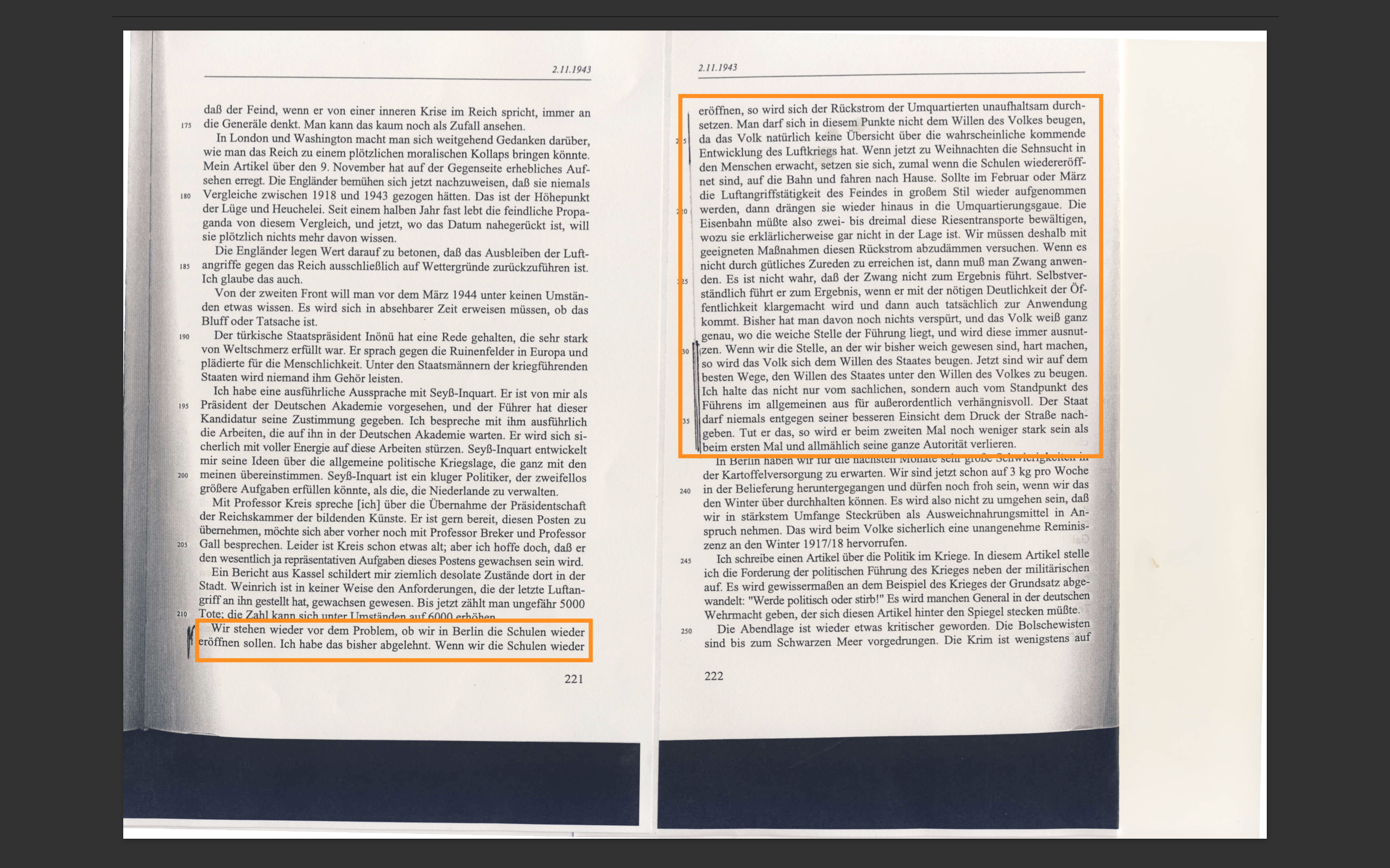 Joseph Goebbels writes about the necessity to use force to put down resistance and the state's need to bend the people to the state, not vice versa. This is written after both the Rosenstrasse Protest and the Witten Women Protest.